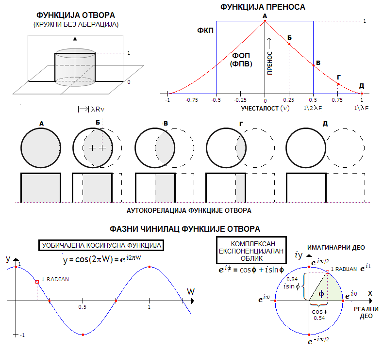 ДОБИЈАЊЕ ФОП АУТОКОРЕЛАЦИЈОМ ОПТИЧКОГ ОТВОРА